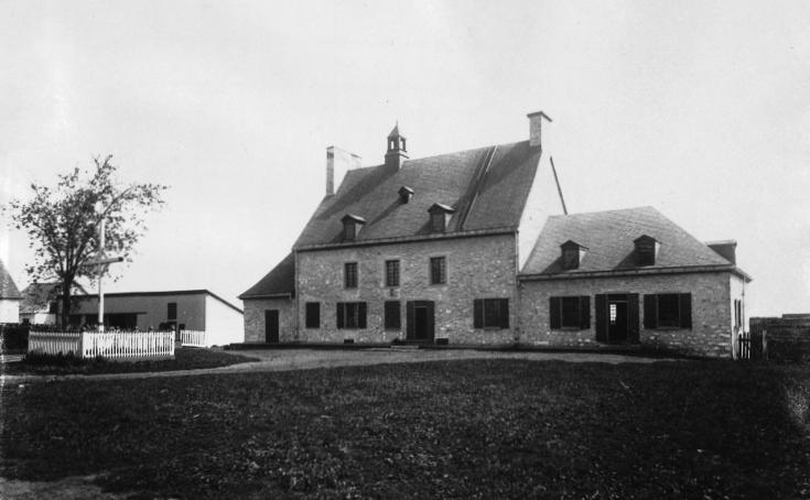 Photograph, St. Gabriel farm house, Point St. Charles, Montreal, QC, about 1895, Wm. Notman & Son, Silver salts on glass - Gelatin dry plate process - 20 x 25 cm